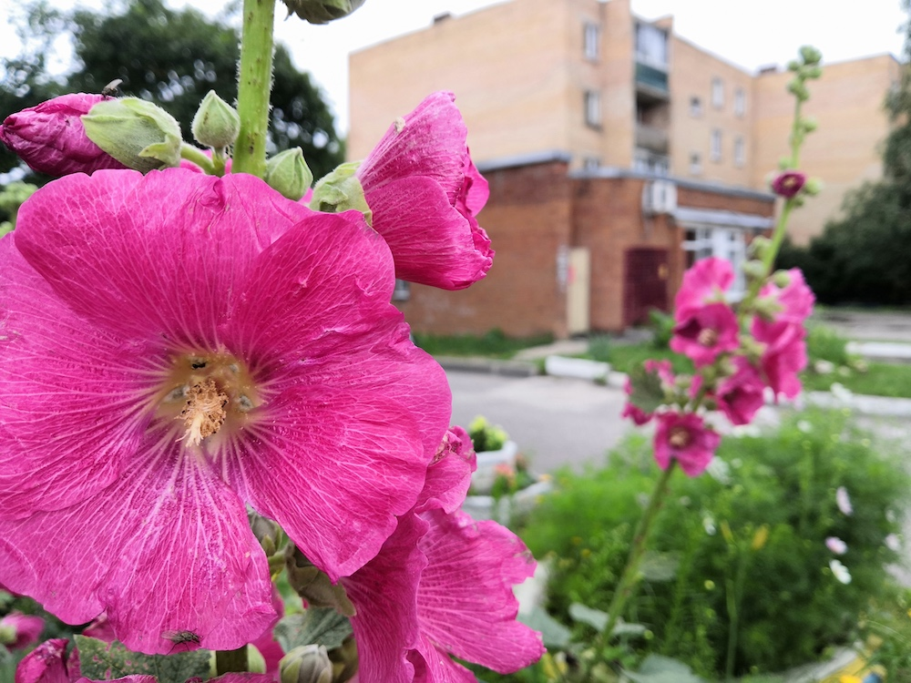 Komsomolskaya street in the village of Mirny, urban district of Serpukhov